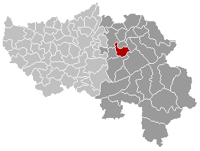 Map, municipality belgium Verviers